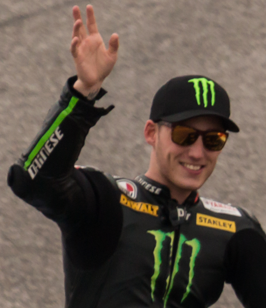 Pol Espargaró at the Circuit of the Americas in 2014 (cropped from this file)